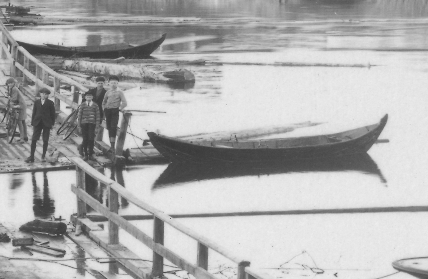 Rowing boat used in the work with timber floating . Photo C.Strömberg, the original is cropped.